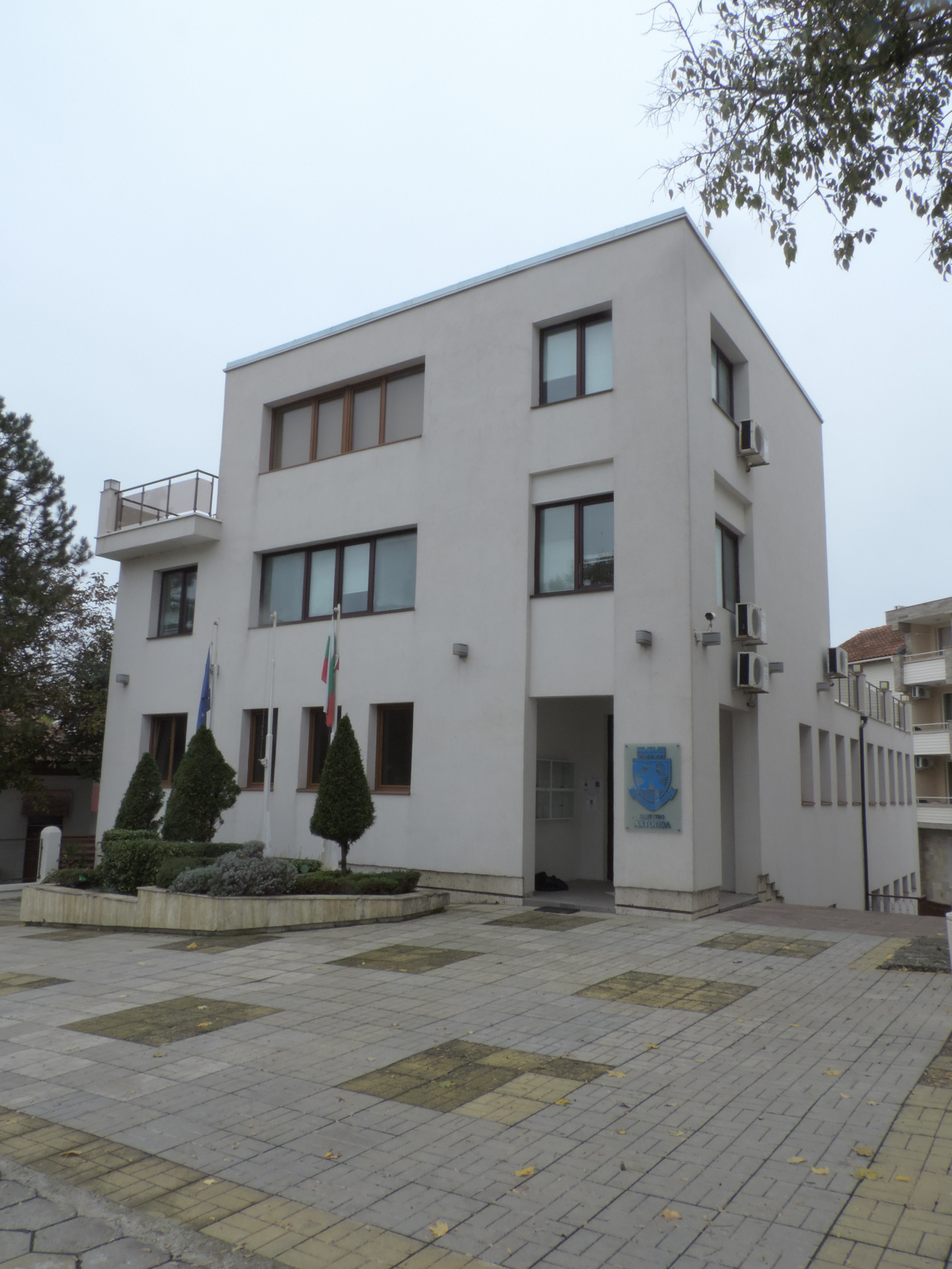 The building of Ahtopol townhall